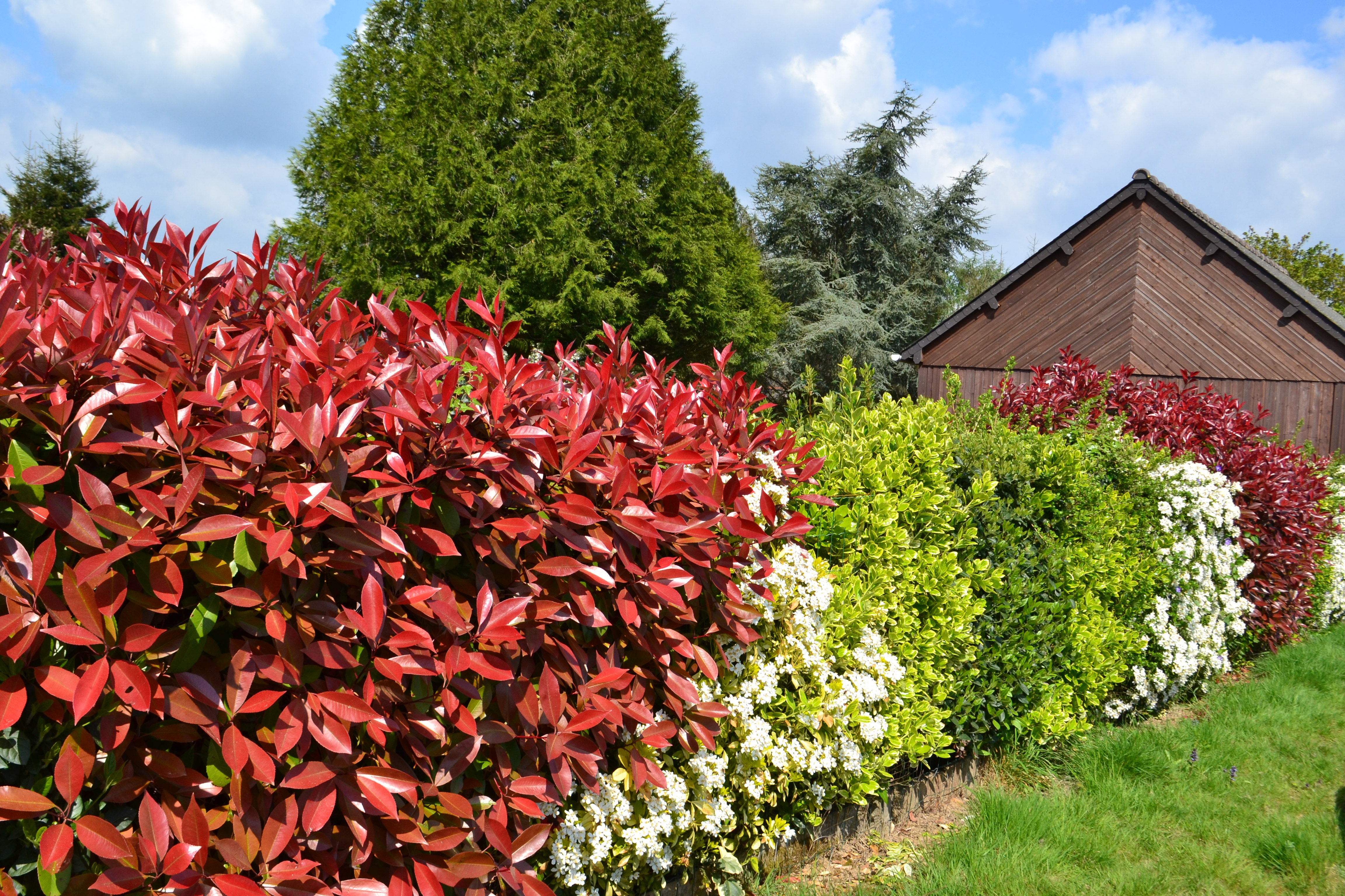 Hedge formed from several species of shrubs